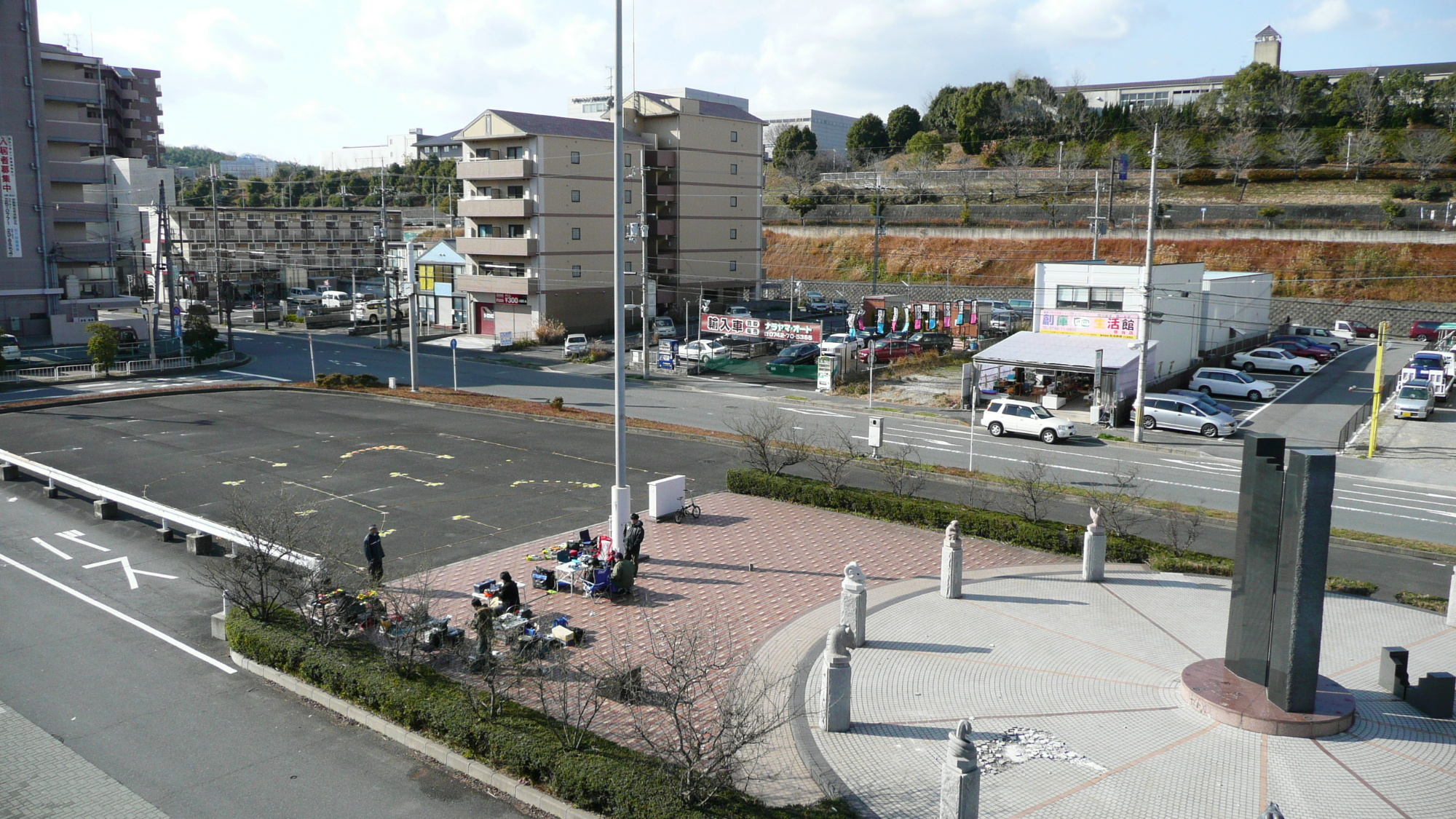 West Japan Railway, Kansai Main Line, Narayama Station west square. / 関西本線平城山駅西口広場